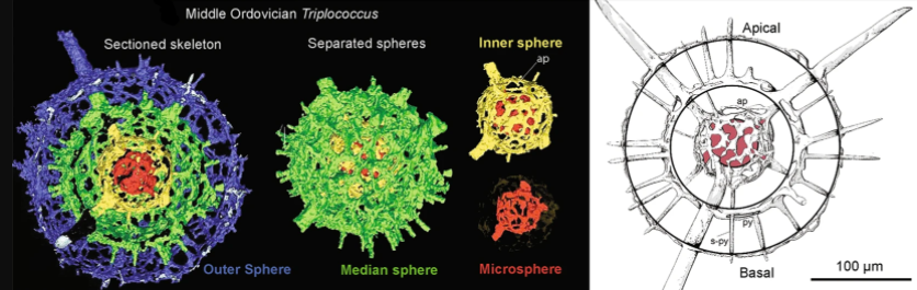 Micro-CT model of radiolarian, Triplococcus acanthicus Micro-CT model of the radiolarian Triplococcus acanthicus from the Middle Ordovician Piccadilly Formation, western Newfoundland, demonstrating a complete morphological observation of the relationship between spheres and spines without compromising the integrity of the specimen. The innermost sphere is highlighted (red). Each segment is shown at the same scale.